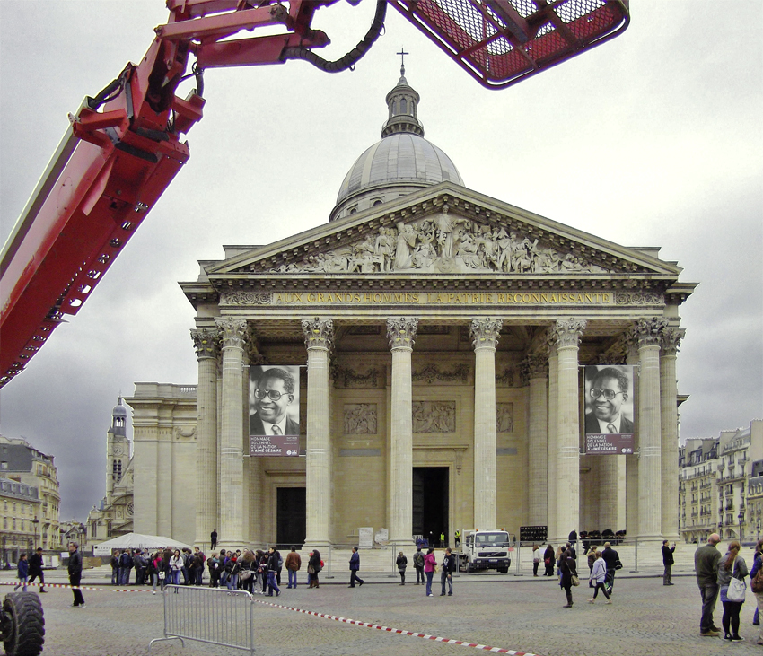 Preparation of the “hommage solennel de la nation à Aimé Césaire”, Panthéon, Paris, gates removed, Panthéon closed, 1st April 2011, 72dpi, 30cm × 25,8cm.